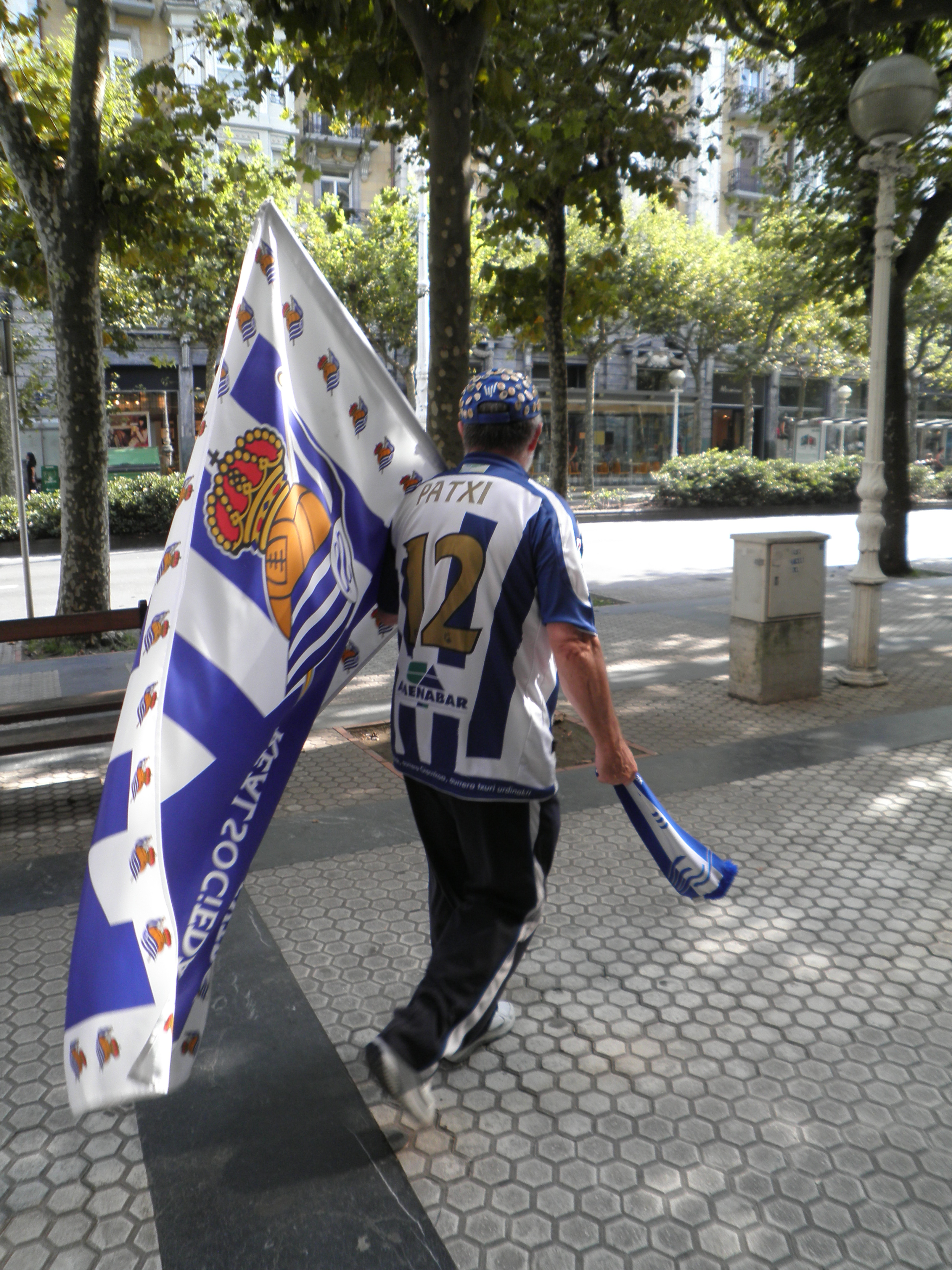 Hooligan of Real Sociedad.